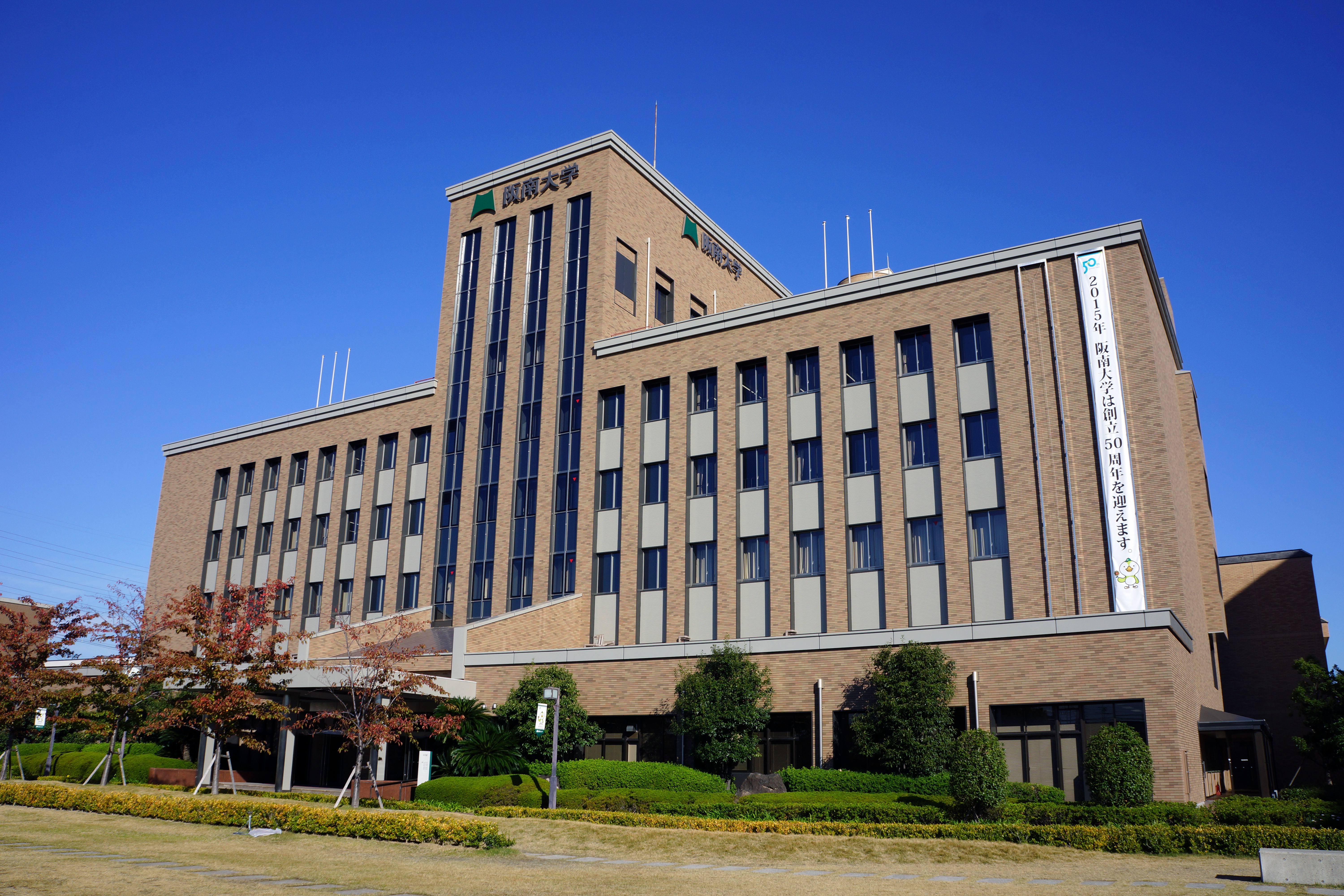 Hannan University No. 6 Building